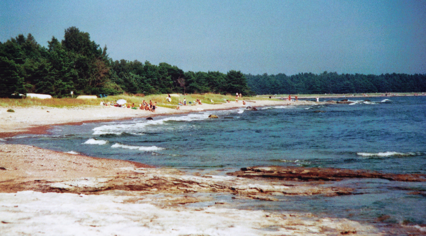 Sandviken, Gotland